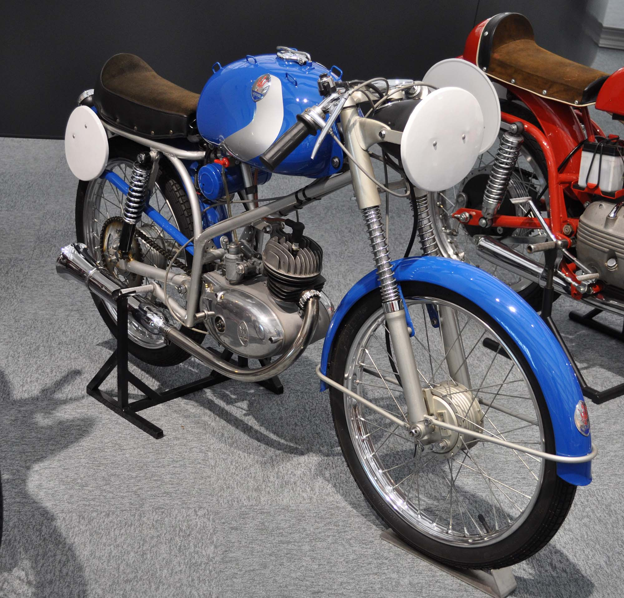 Maserati 48 IL Rospo (1958)